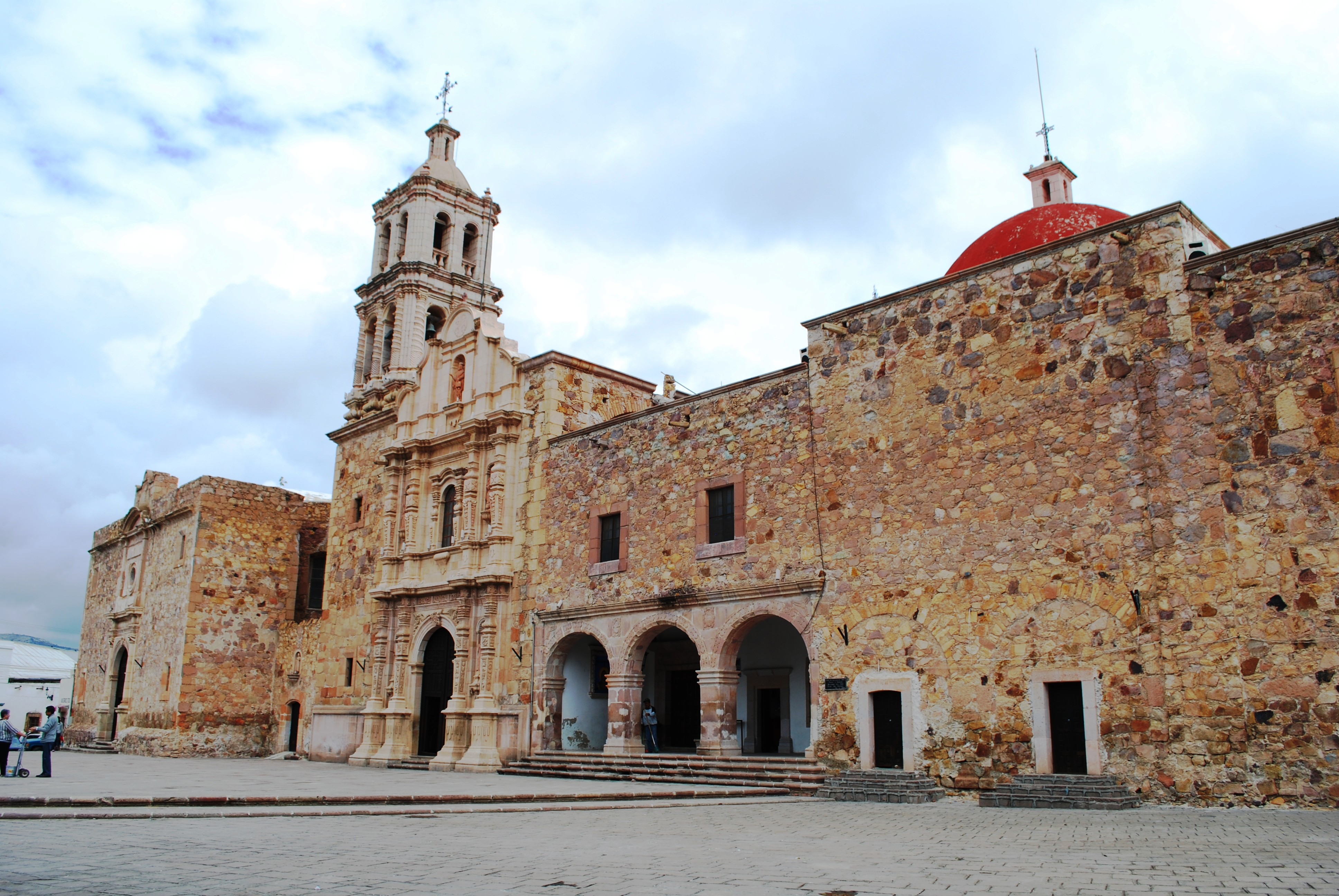 View of the San Francisco Tercer Orden church complex in Sombrerete, Zacatecas